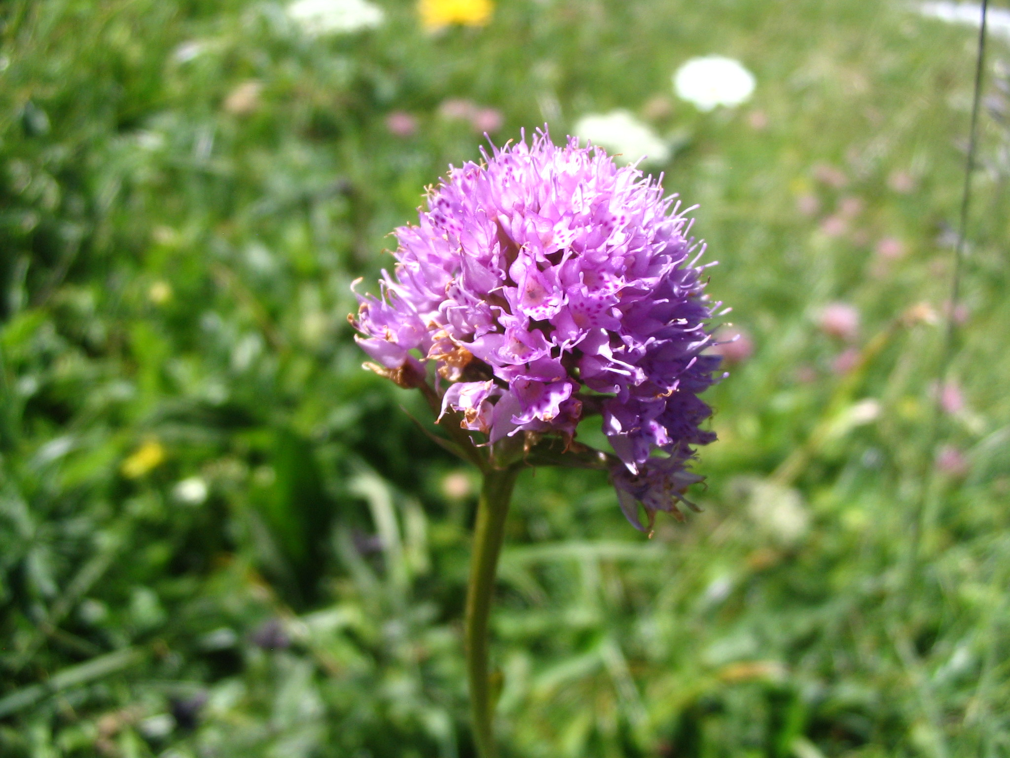 Traunsteinera globosa